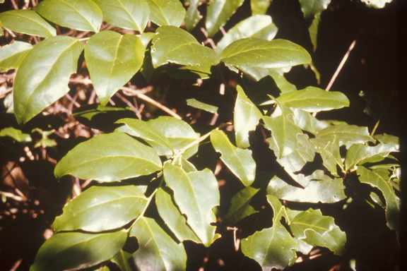 Schoepfia arenaria USFWS photo